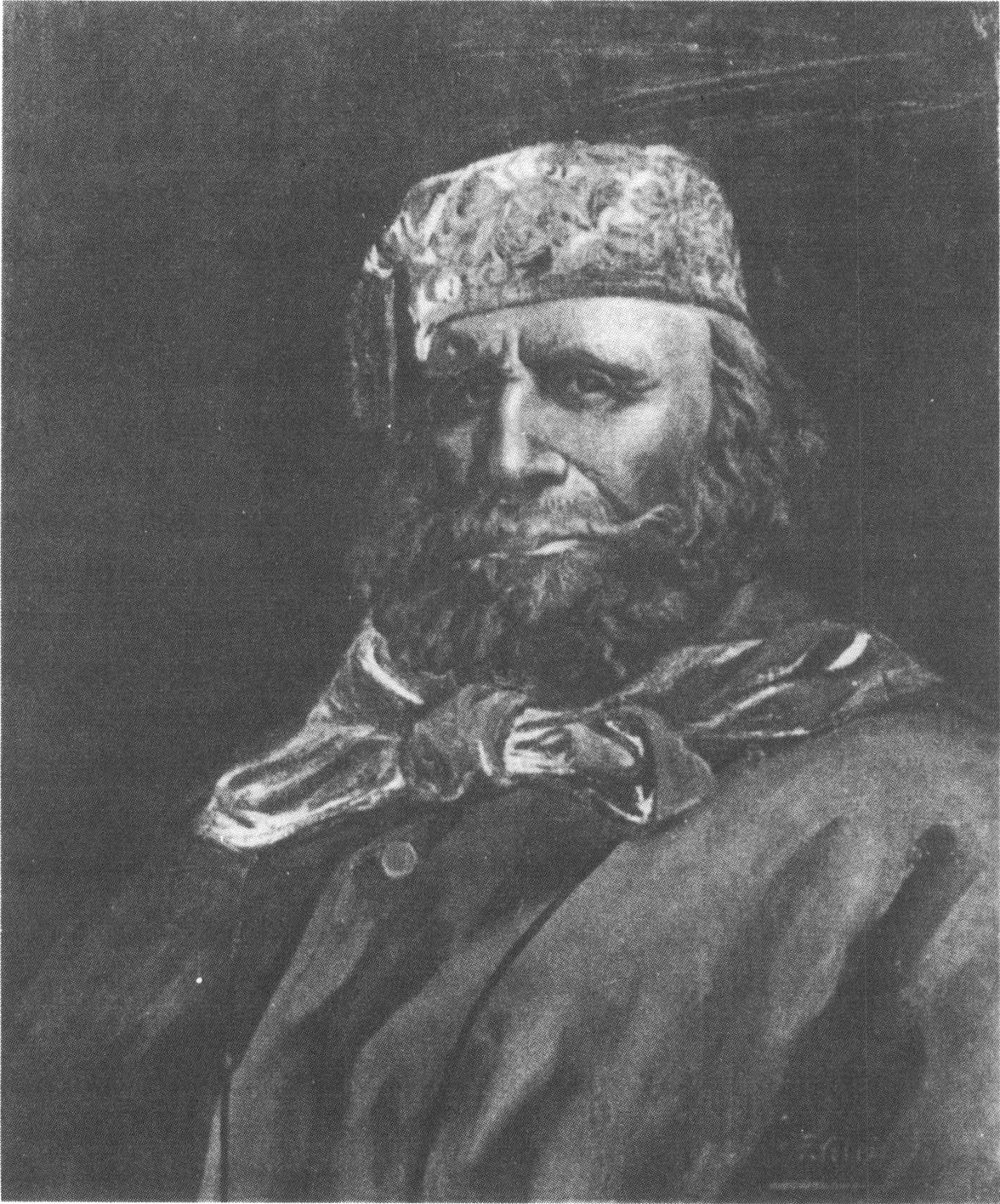 Francisco Félix de Sousa, the Chacha of Ouidah, Benim. The most famous Brazilian slave-trader